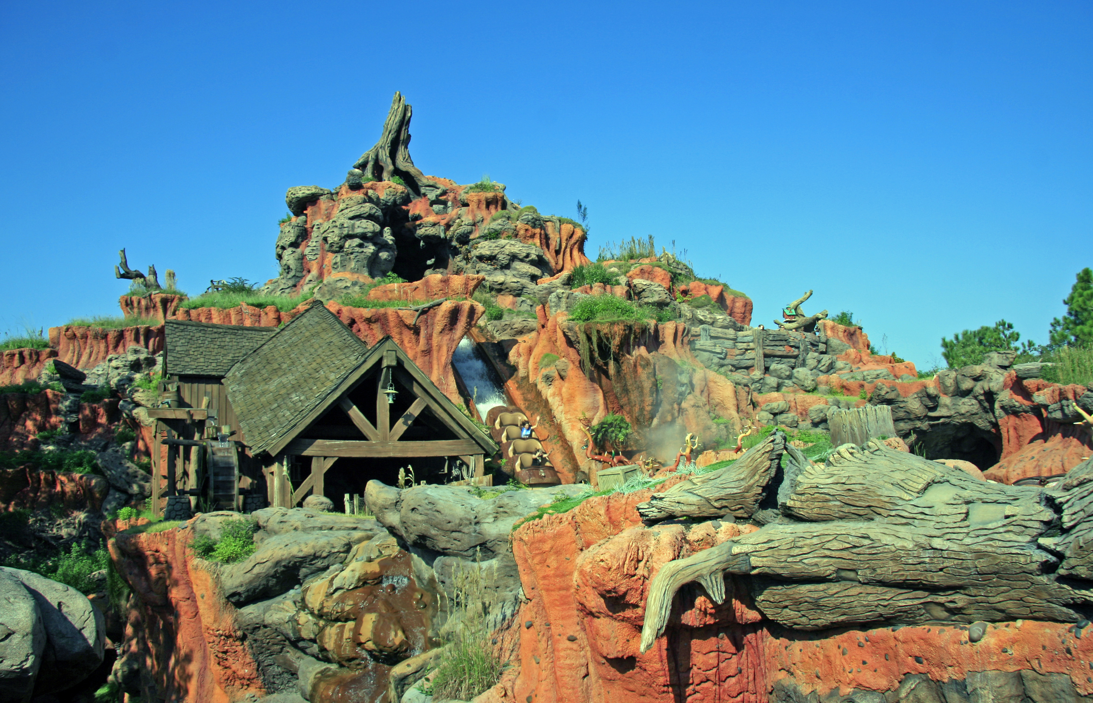 Disney Magic Kingdom - Splash Mountain